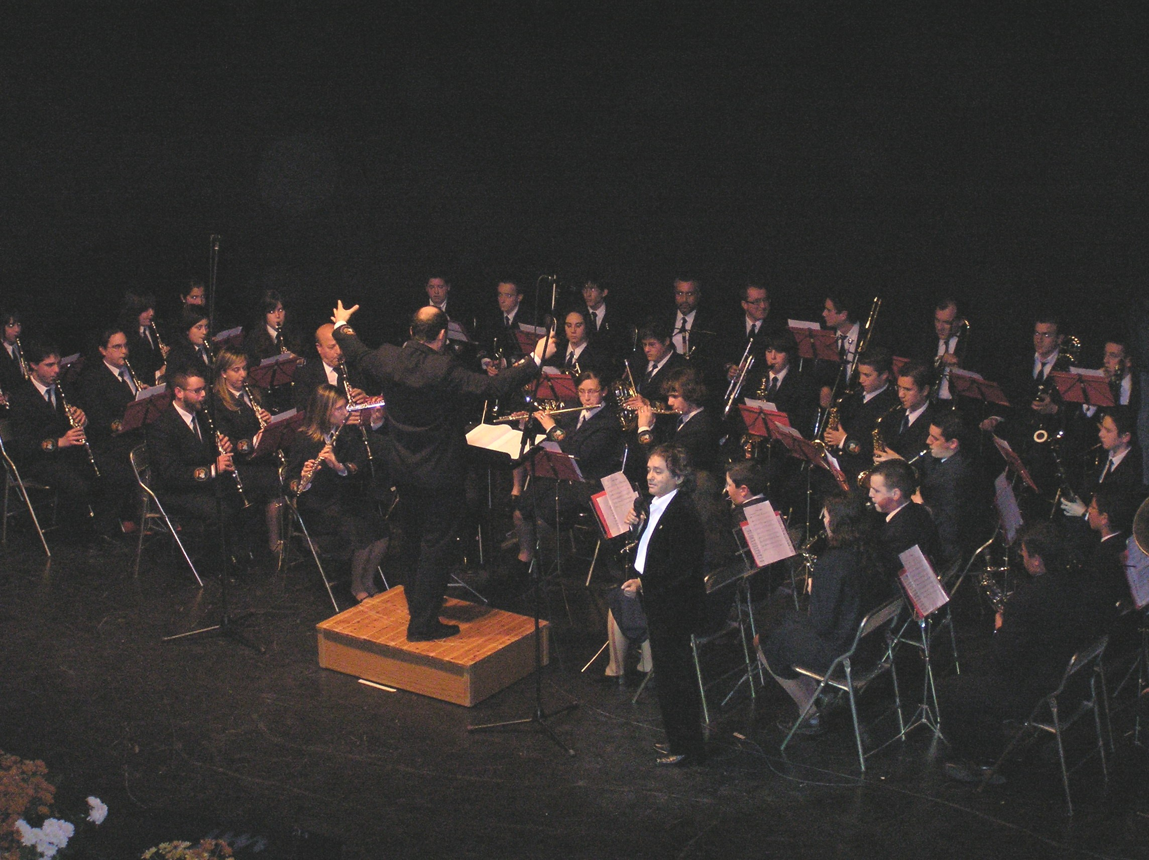 Joselito con la Banda de Música de Beas en el cine Regio el 14 de abril de 2007, con motivo de la reapertura del cine Regio